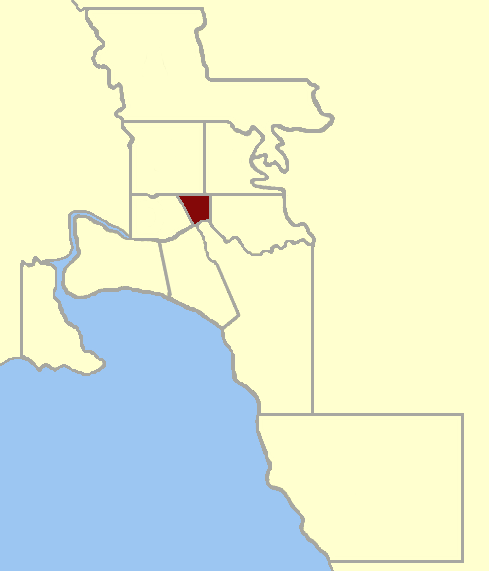 Electoral district of East Melbourne 1859, Victorian Legislative Assembly